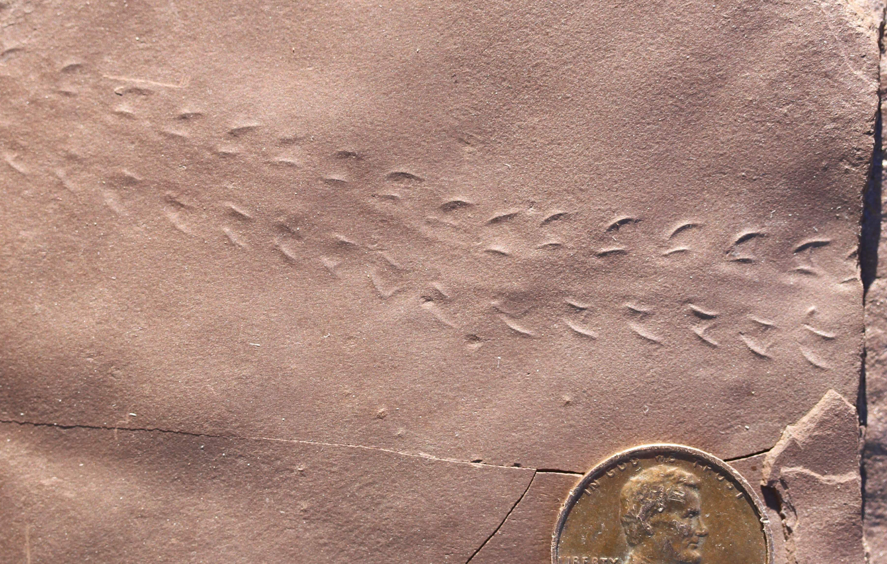 Bifurculapes laqueatus trackway (positive hyporelief, i.e. casts on the bottom surface of the bed) from the Early Jurassic East Berlin Formation (Hartford Basin) of Holyoke, Massachusetts (not the same specimen as this one). See coin (1 U.S. cent, 19.05 mm in diameter) for scale.